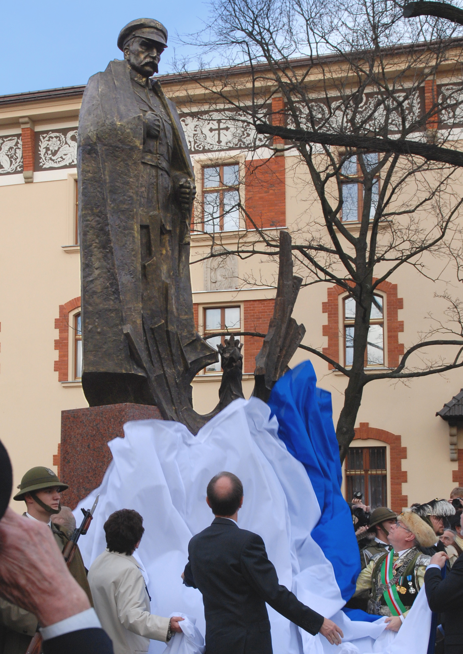 2008 inauguration of the Józef Piłsudski Monument in Kraków by Minister of Defense Bogdan Klich, Old Town district.